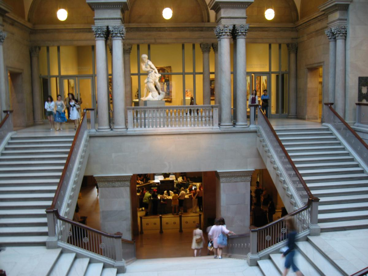 Interrior view, Art Institute of Chicago